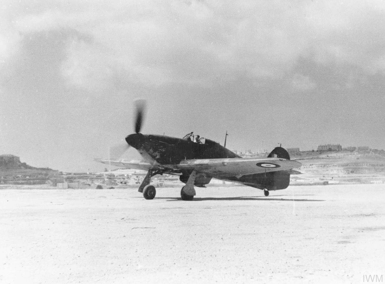 A Hawker Hurricane Mark II of No. 261 Squadron RAF, taxying at Ta Kali, Malta, following a sortie.